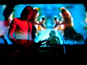 Dutch stoner rock band 35007 live at Cafe Central in Weinheim, Germany, May 31, 2002 (picture 1 of 2 at Wikimedia Commons)